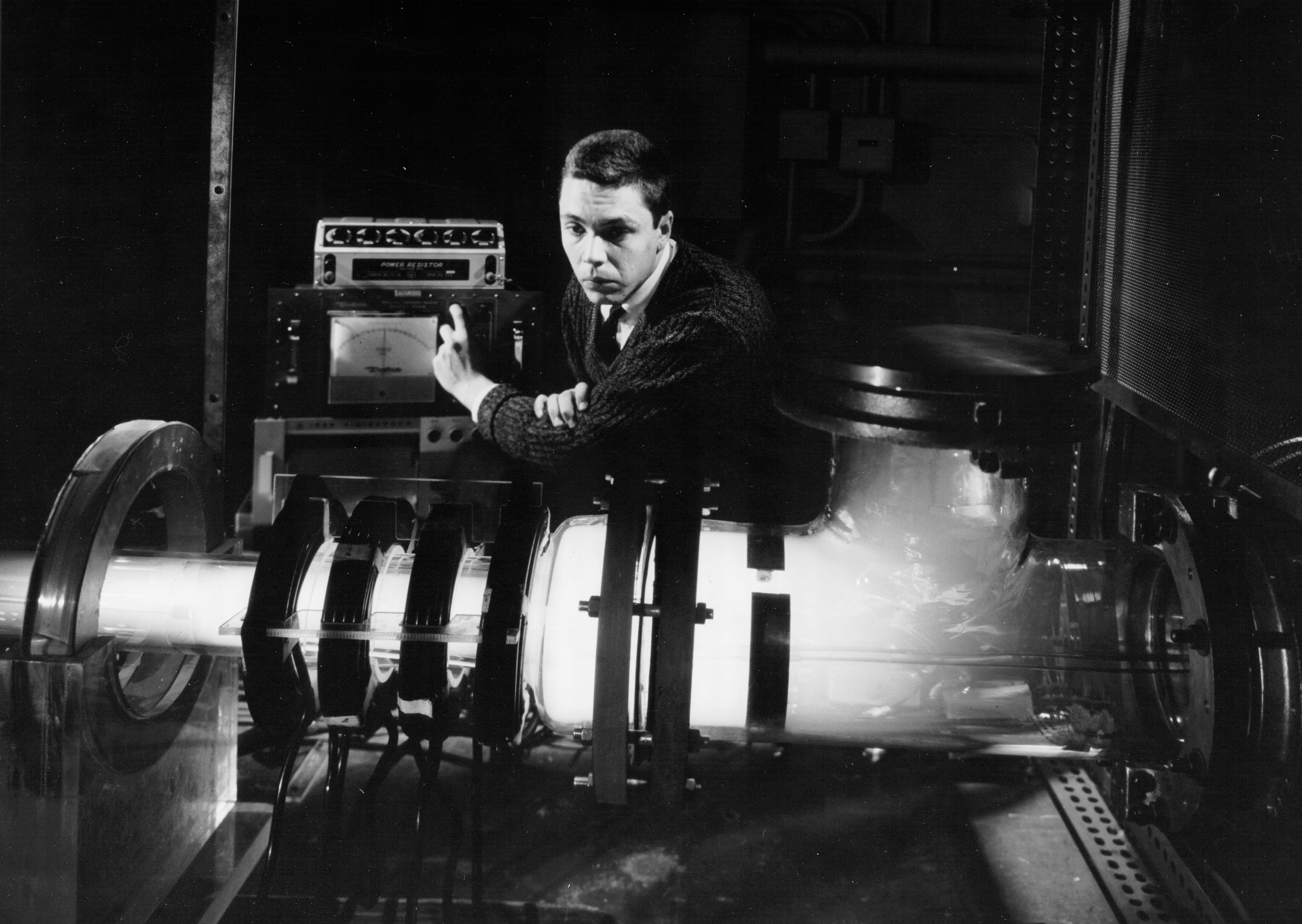 The Pilot Plasma Engine. This traveling wave accelerator, being operated by Raymond W. Plamer of the Lewis Electromagnetic Propulsion Division, uses an alternating current power supply. The AC feature avoids the life limitations of direct current accelerators where electrode parts rapidly deteriorate from touching the plasma. The traveling wave accelerator works like its name. A neutral plasma of electrons and ions is produced in the source at the left. This plasma moves to the right and is accelerated by a moving magnetic field in the four black coils. Such acceleration produces thrust, perhaps enough to propel a future spacecraft beyond the Moon.